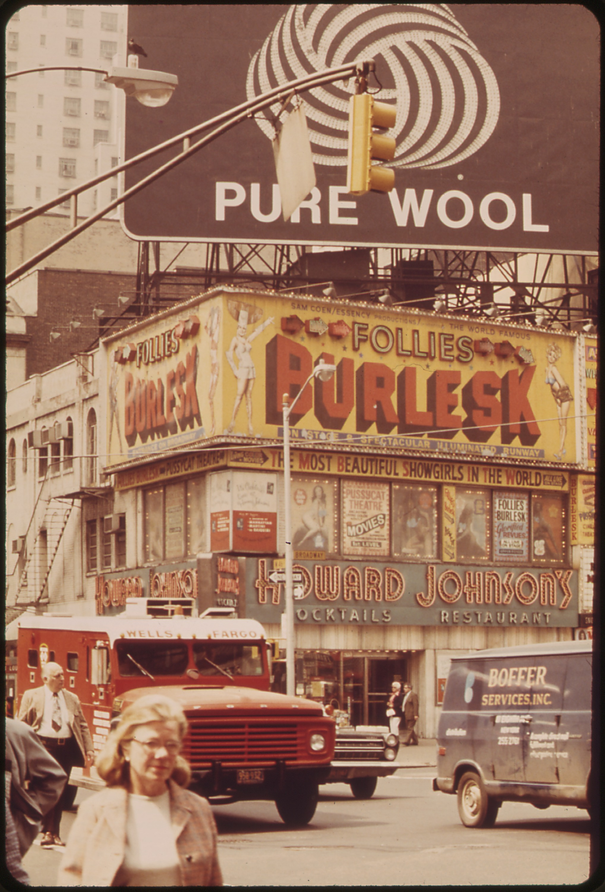 A Howard Johnson's restaurant in Midtown Manhattan, topped by the "Follies Burlesk"; on the roof is a large billboard for "Pure Wool"